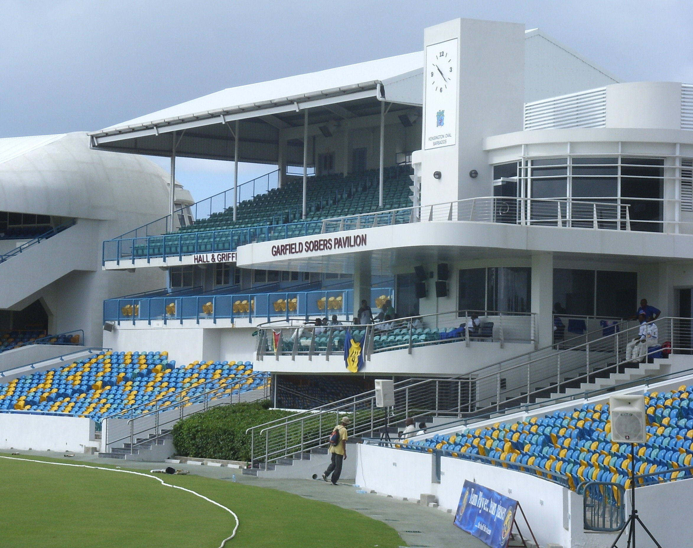 The (Sir) Garfield Sobers Pavilion at the Kensington Oval ground, Bridgetown Barbados